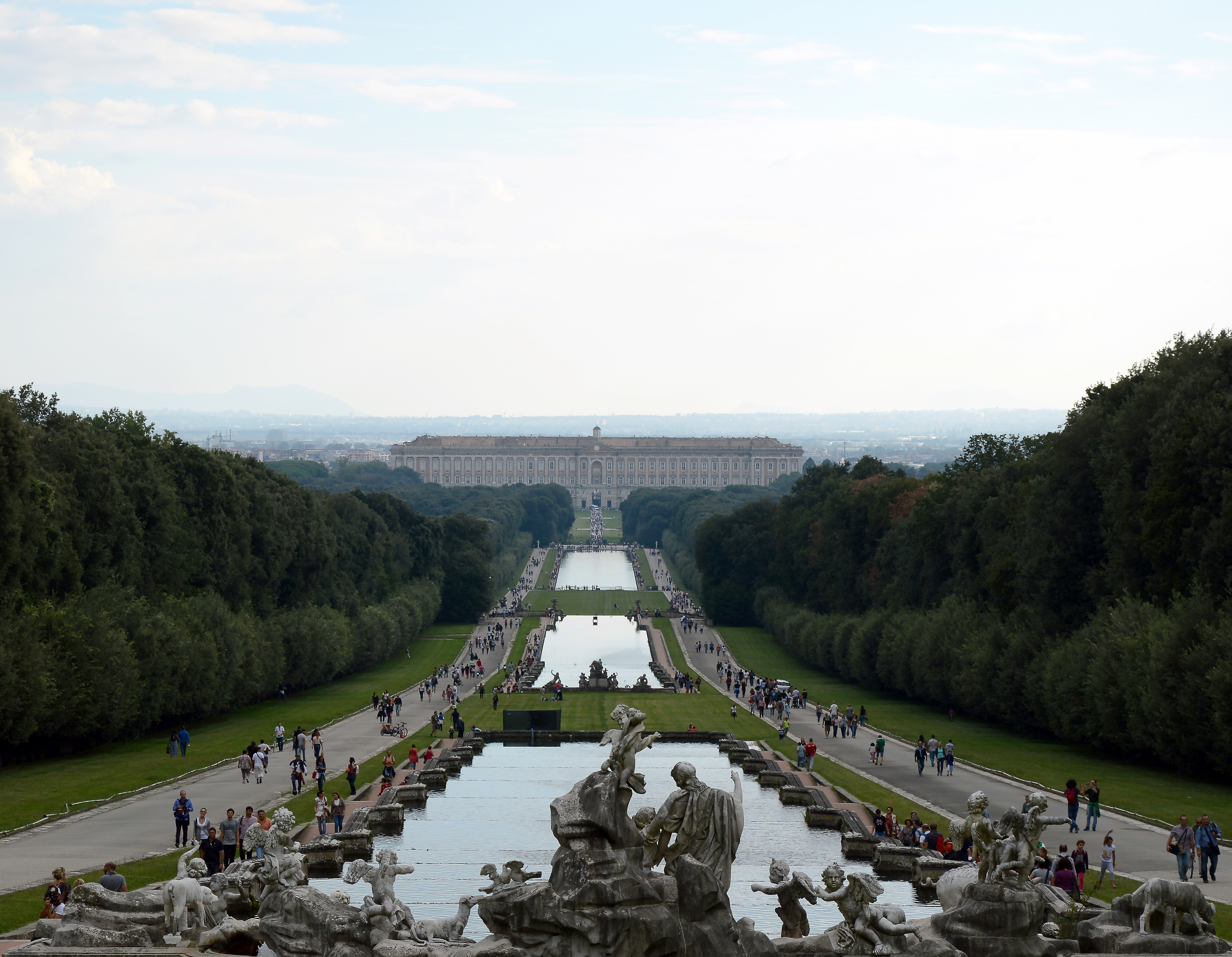 Royal Park of the Palace of Caserta